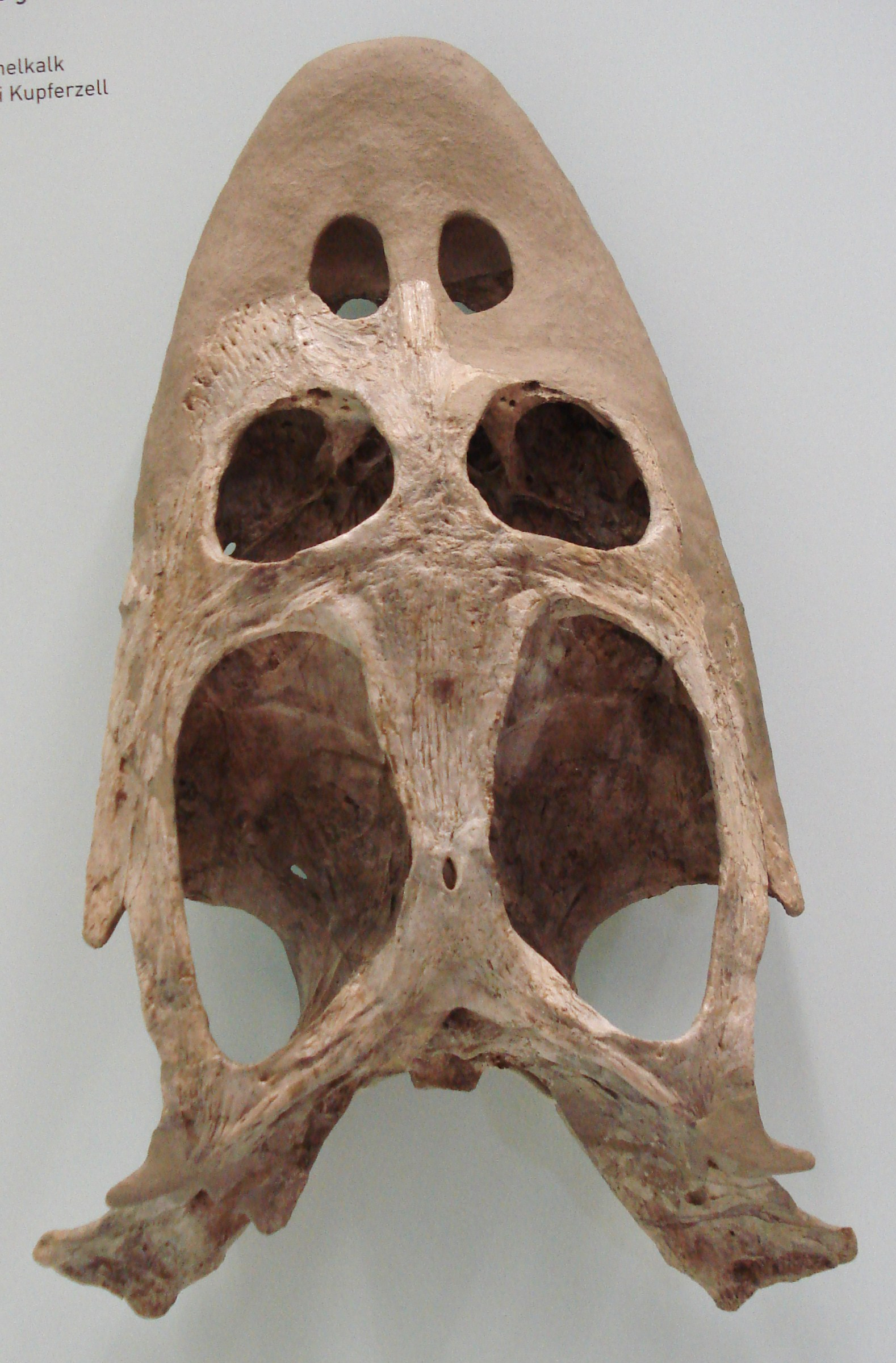 fossil of simosaurus